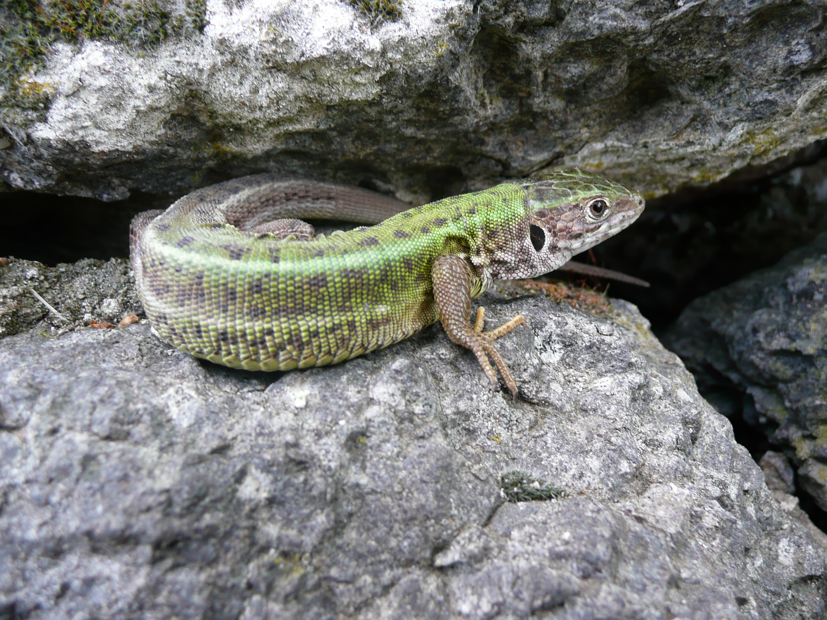 Green lizard sun on the siderock the Montain Somló